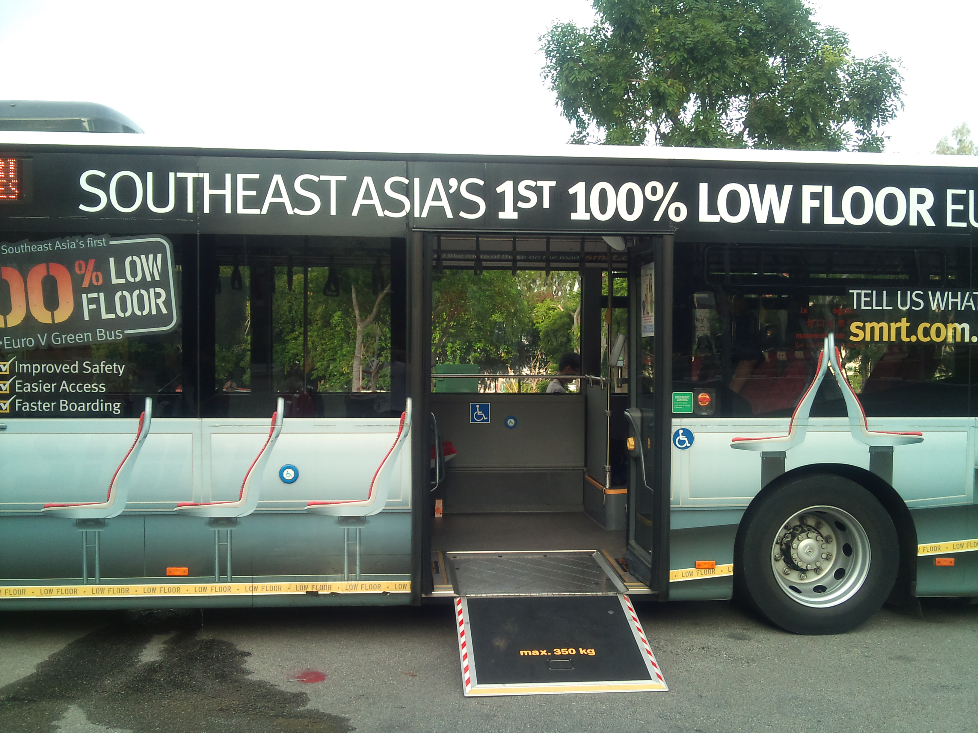 Exit (rear) doors of the Mercedes-Benz O530 Citaro Euro 5 (SMB136C, built 2009) open, with the wheelchair ramp opened. The standing area where the wheelchair should be parked can be seen in the bus. Please note that the ramp are meant to be opened onto kerb level, not ground level.